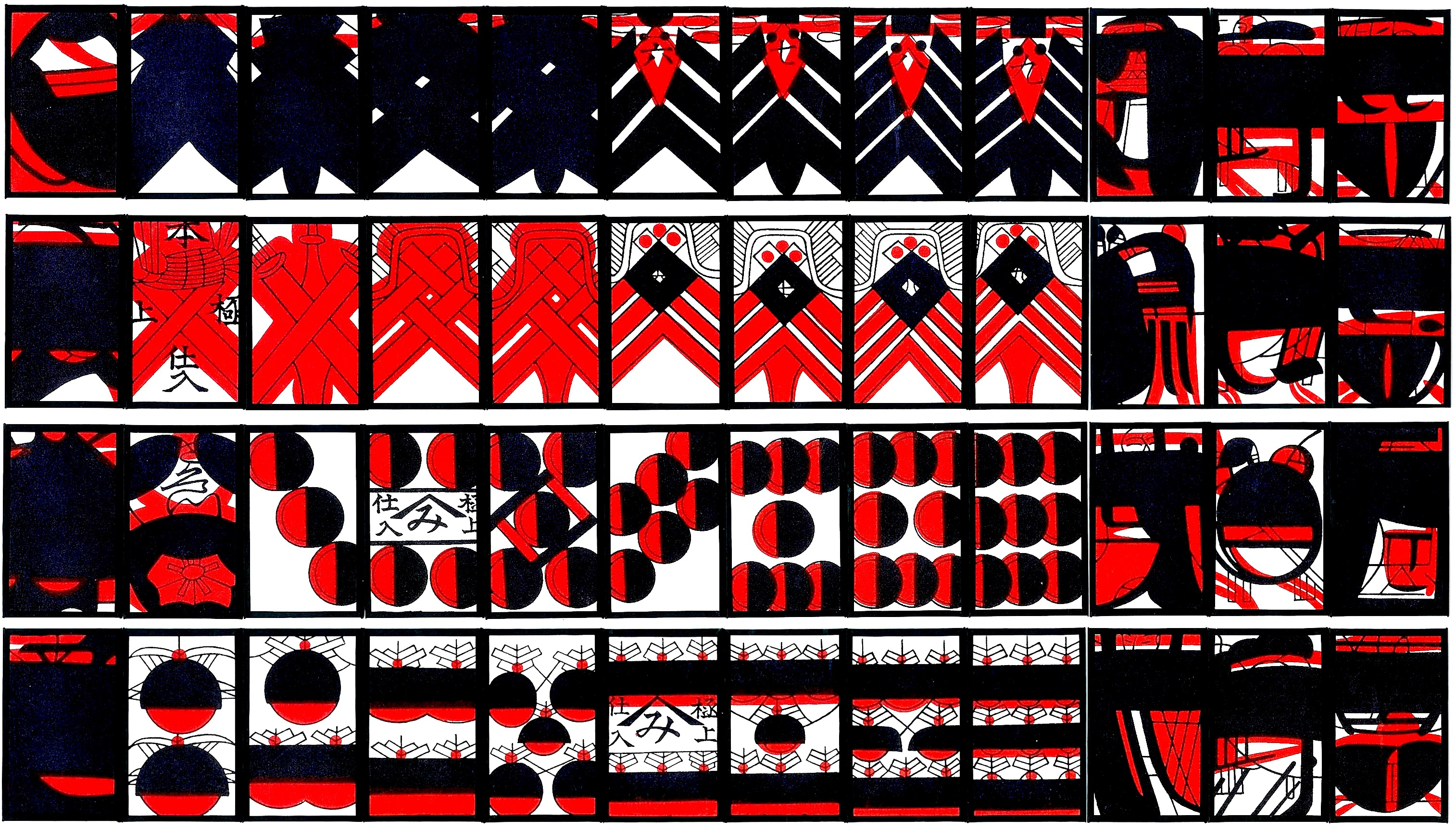 Sakuragawa-fuda, (Tenshō karuta)